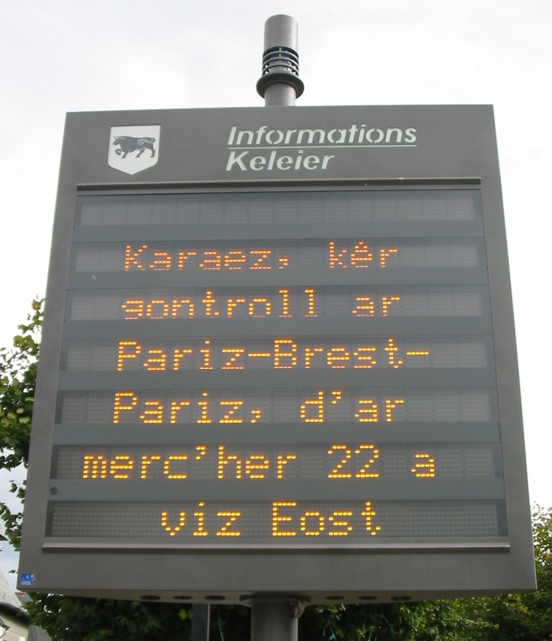 Bilingual electronic sign in Carhaix, Brittany, alternating info in French and Breton. Here's info in Breton in August 2007 about the Paris-Brest-Paris cycling tour passing through.